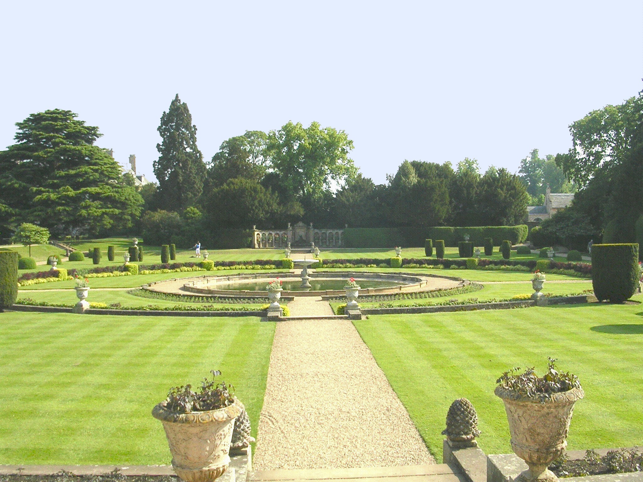 Belton House, view of the garden, with exedra